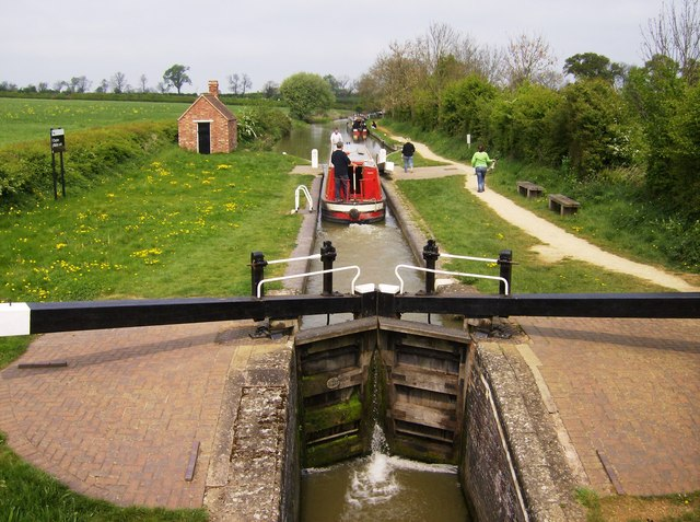 Claydon Middle Lock, Oxford Canal This is the middle of a flight of five locks. Each has a fairly small rise of about 6 feet. This boat has two more locks to negotiate (just around the corner) then is at the summit of the Oxford Canal. The locks are 70 feet long by 7 feet wide. They are the typical pattern for the canal, double bottom gates with gate paddles, single top gate with ground paddles.